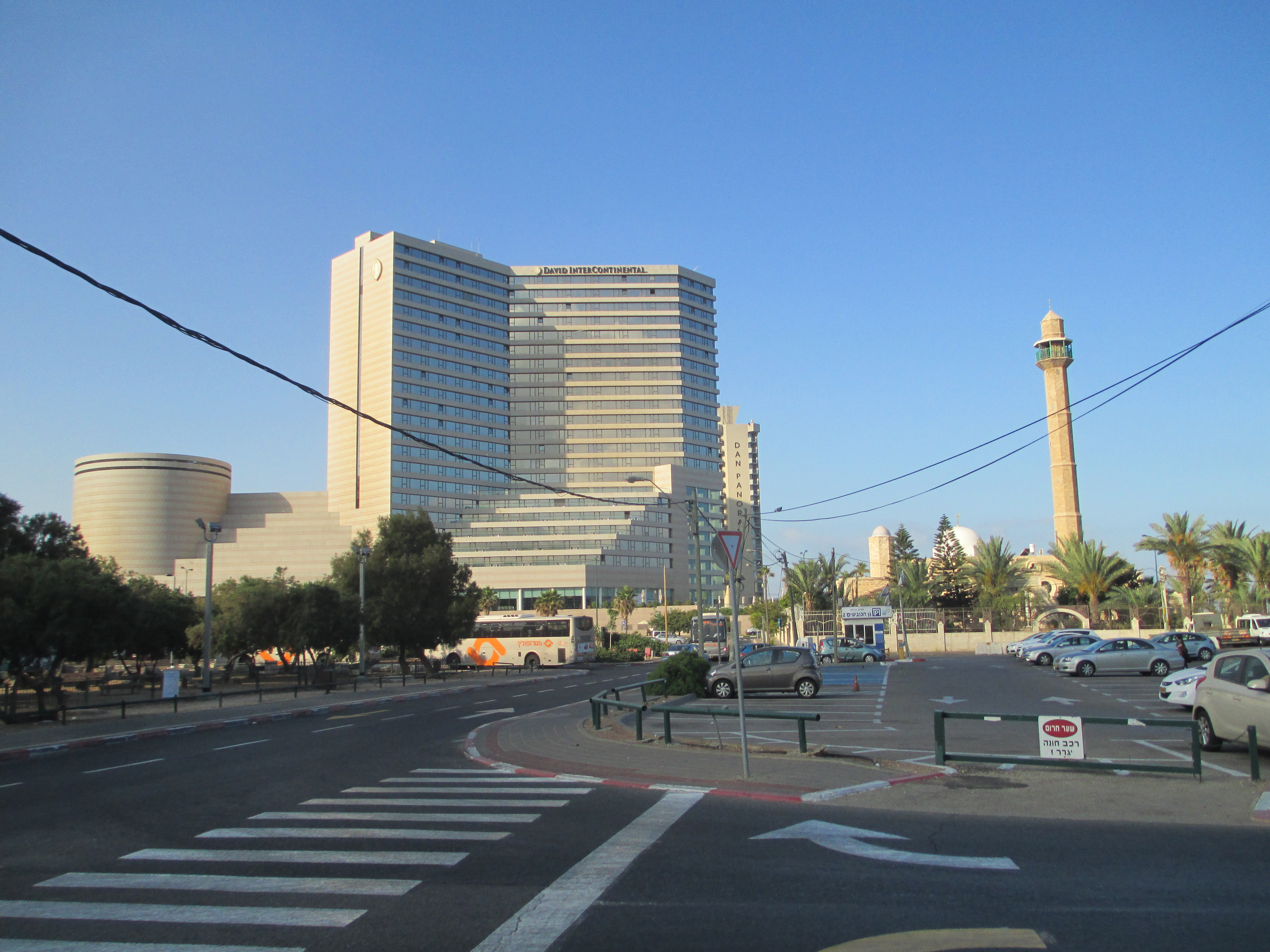 David Intercontinental Hotel and Hassan Beck Mosque in Tel Aviv